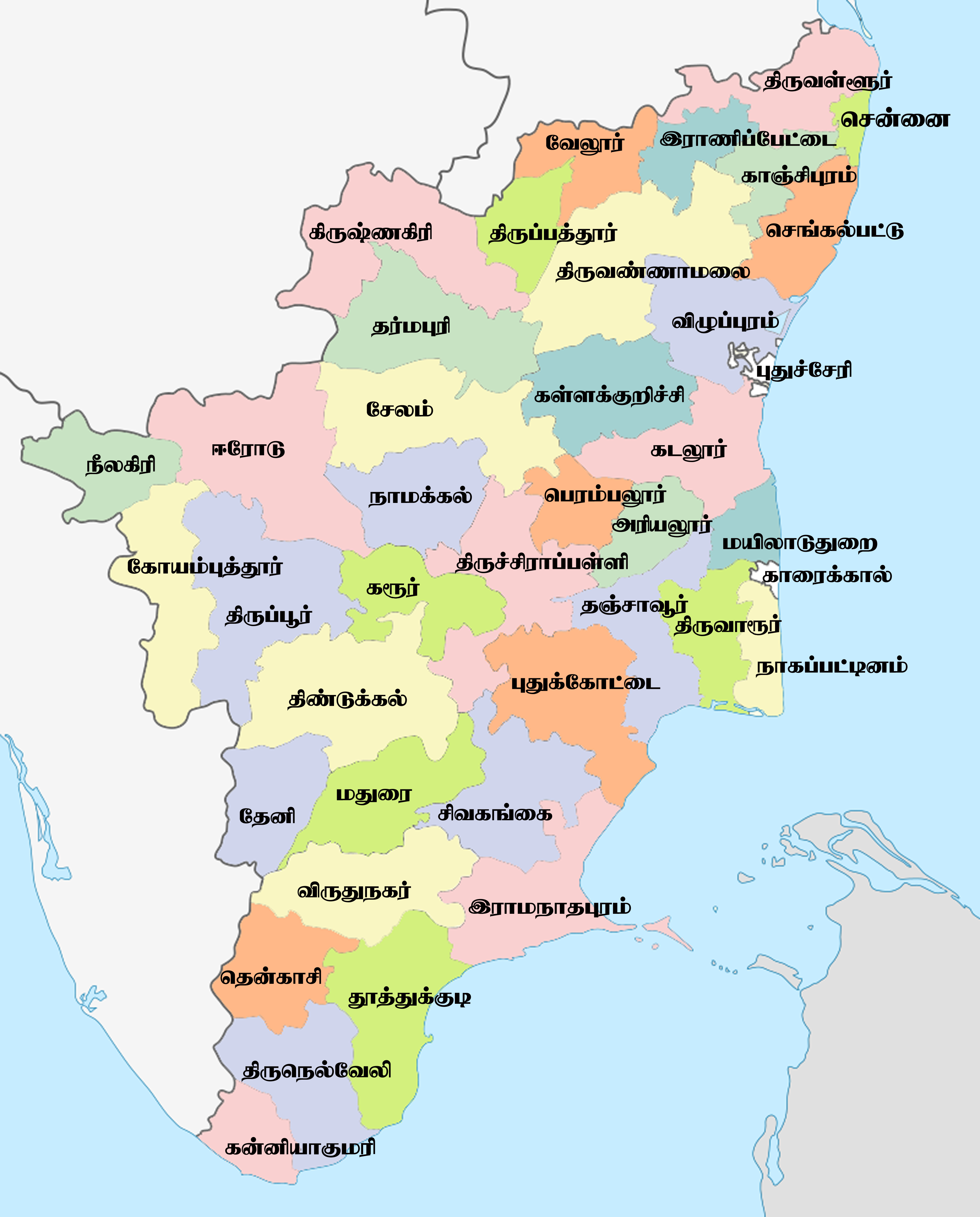 A district map of the Indian state of Tamil Nadu.